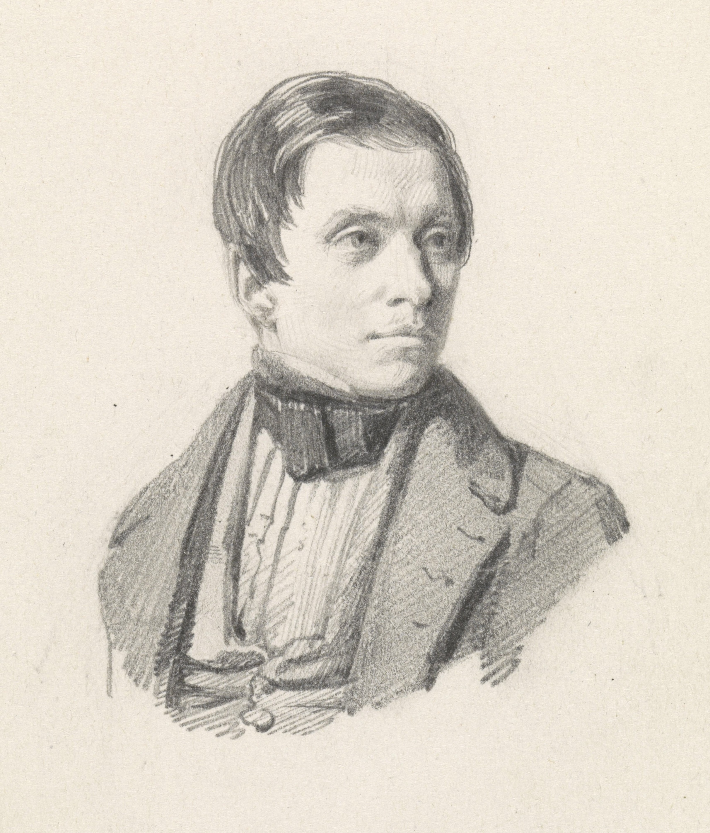 Portret van Hendrik Breukelaar, Johan Coenraad Hamburger, Rijksmuseum Amsterdam